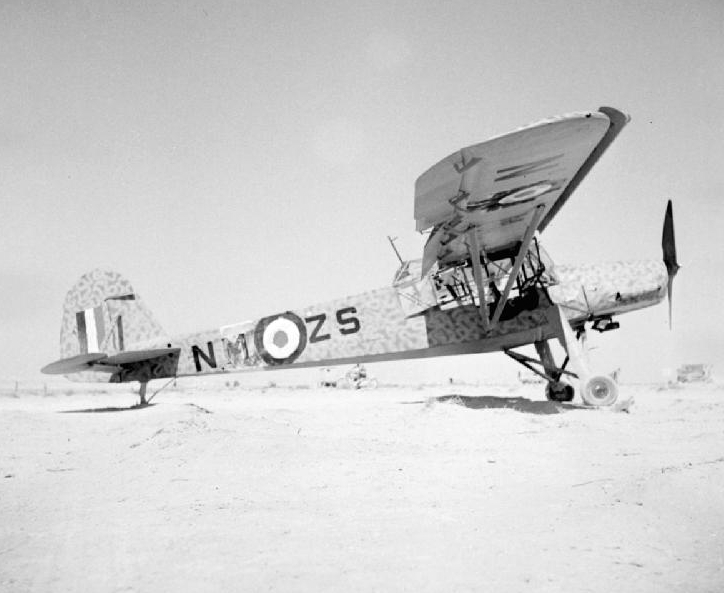 A captured German Fieseler Fi 156 C-3/Trop Storch (ex "NM+ZS") commandeered by the Air Officer Commanding, Western Desert, Air Vice Marshal Arthur Coningham, as his personal communications aircraft. The photograph was probably taken at Air Headquarters, Ma'aten Bagush, Egypt.